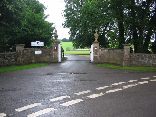 Gates to All Hallows school A view looking south along Turnpike Lane towards the gates to All Hallows school.